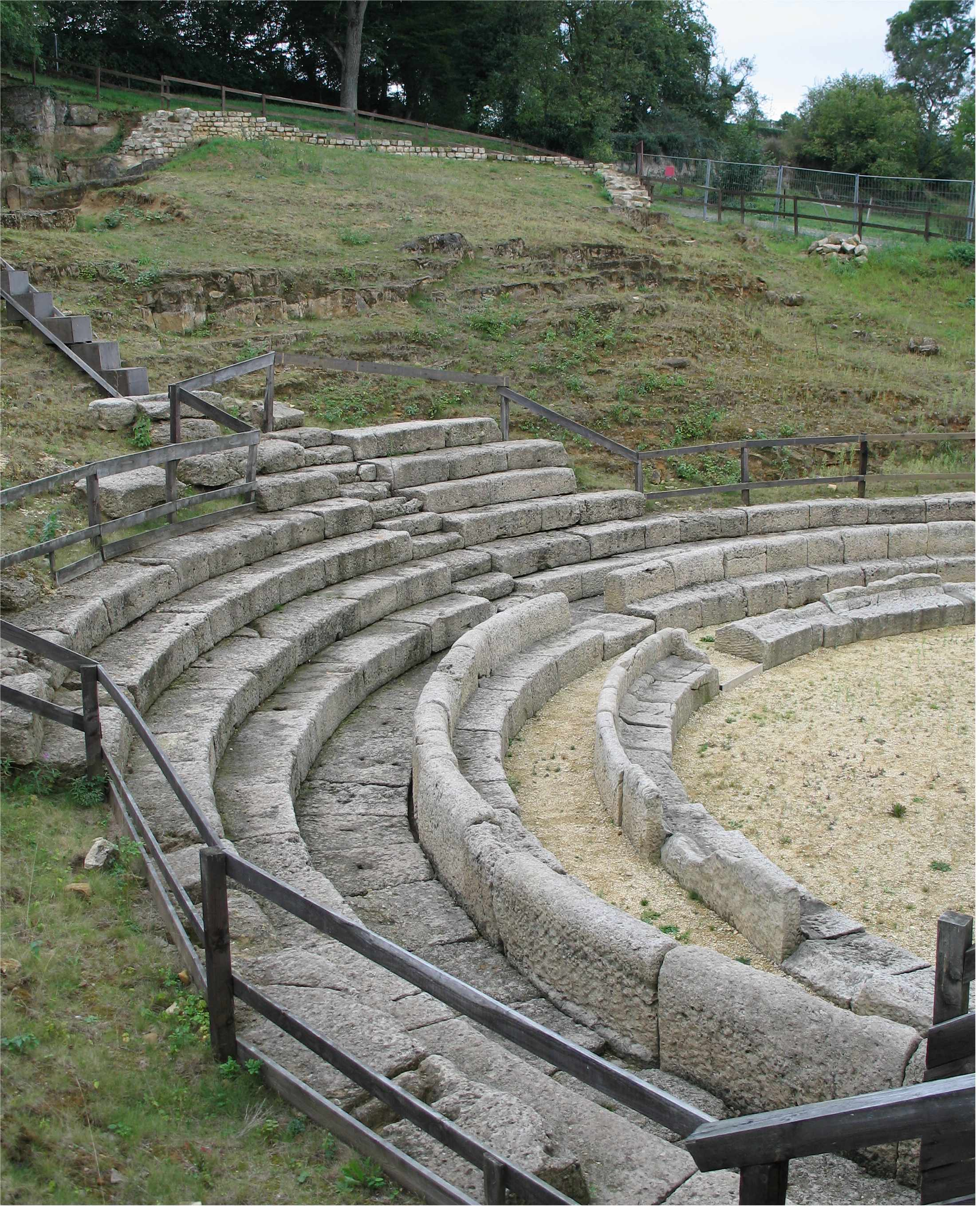 Ancient Roman theatre in Dalheim, Luxembourg